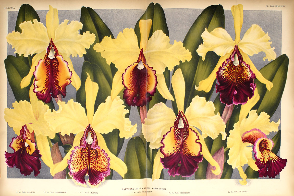 Dow's Cattleya